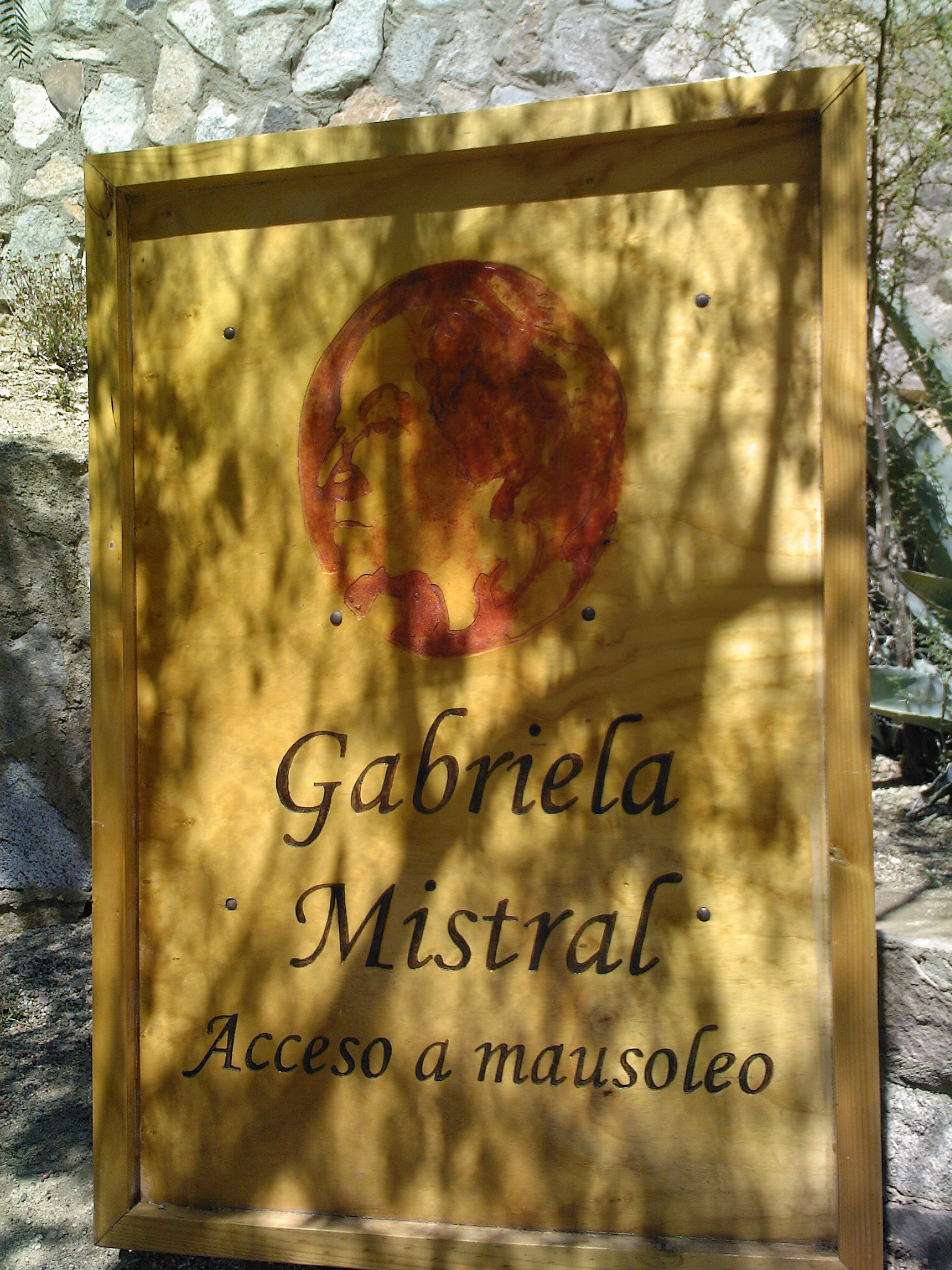 National monument of Chile: The tomb of Gabriela Mistral, poet and diplomat.